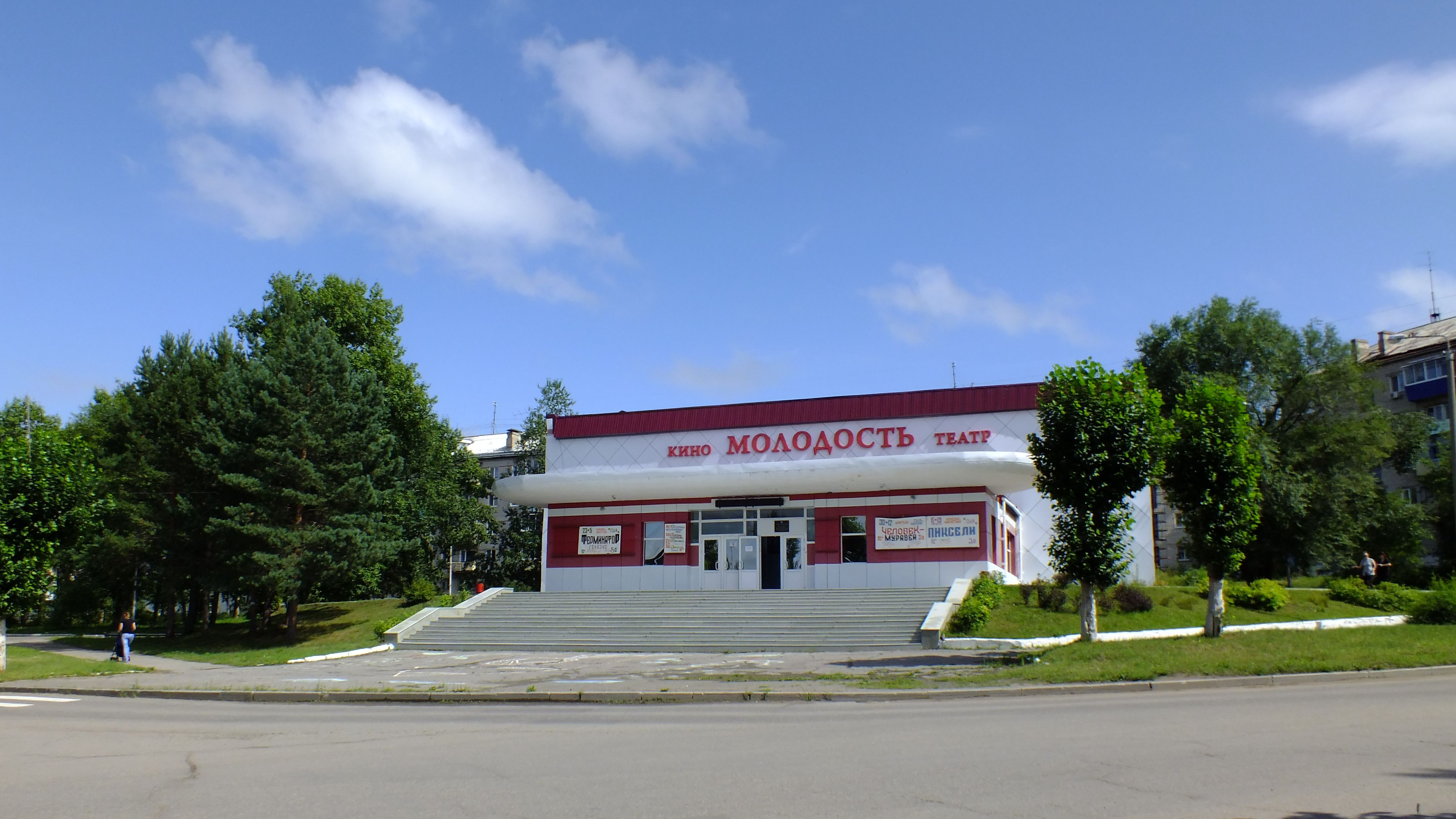 Amursk